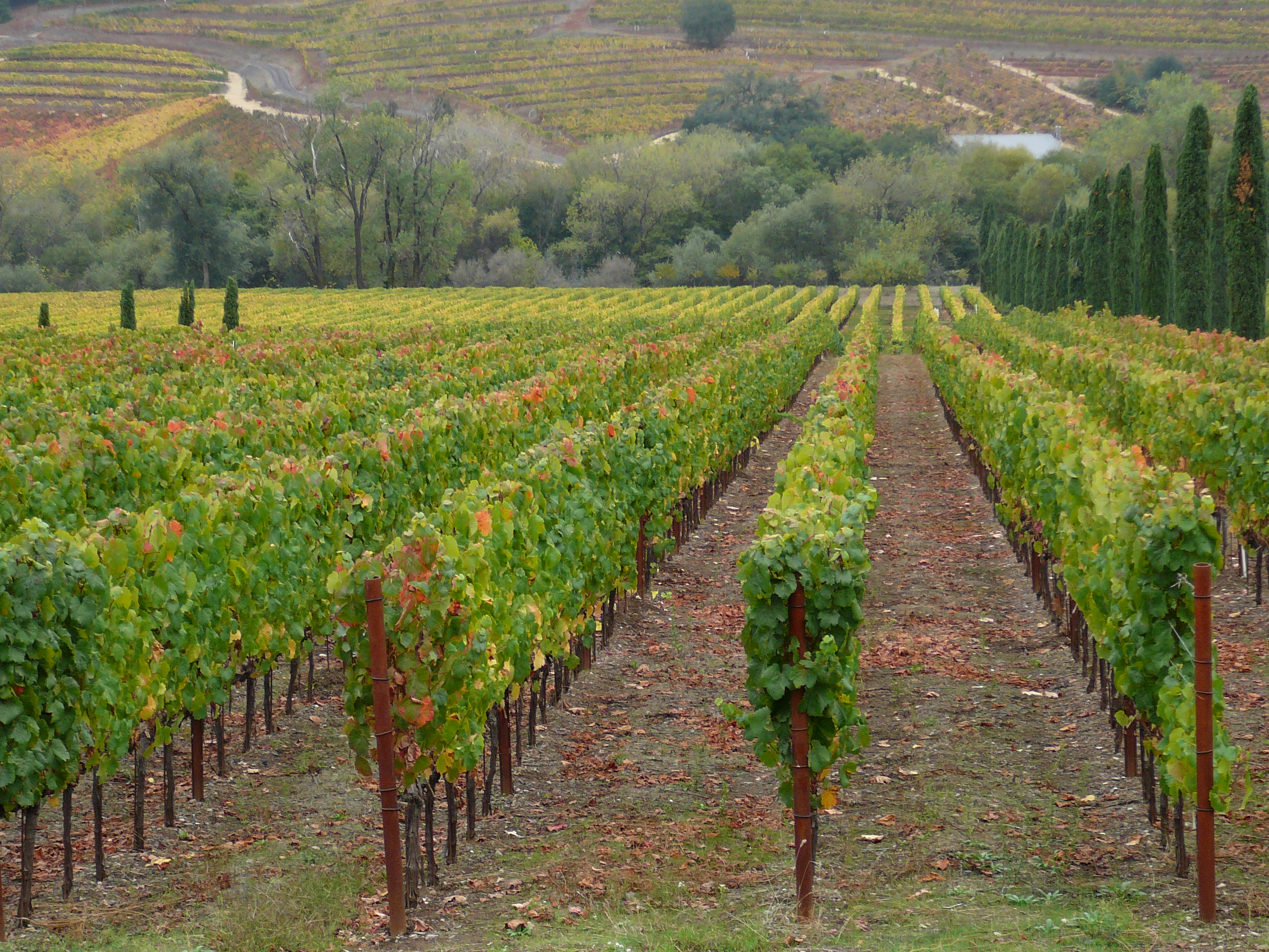 Vineyard owned by California wine producer Ferrari-Carano in the Dry Creek region of Sonoma county.